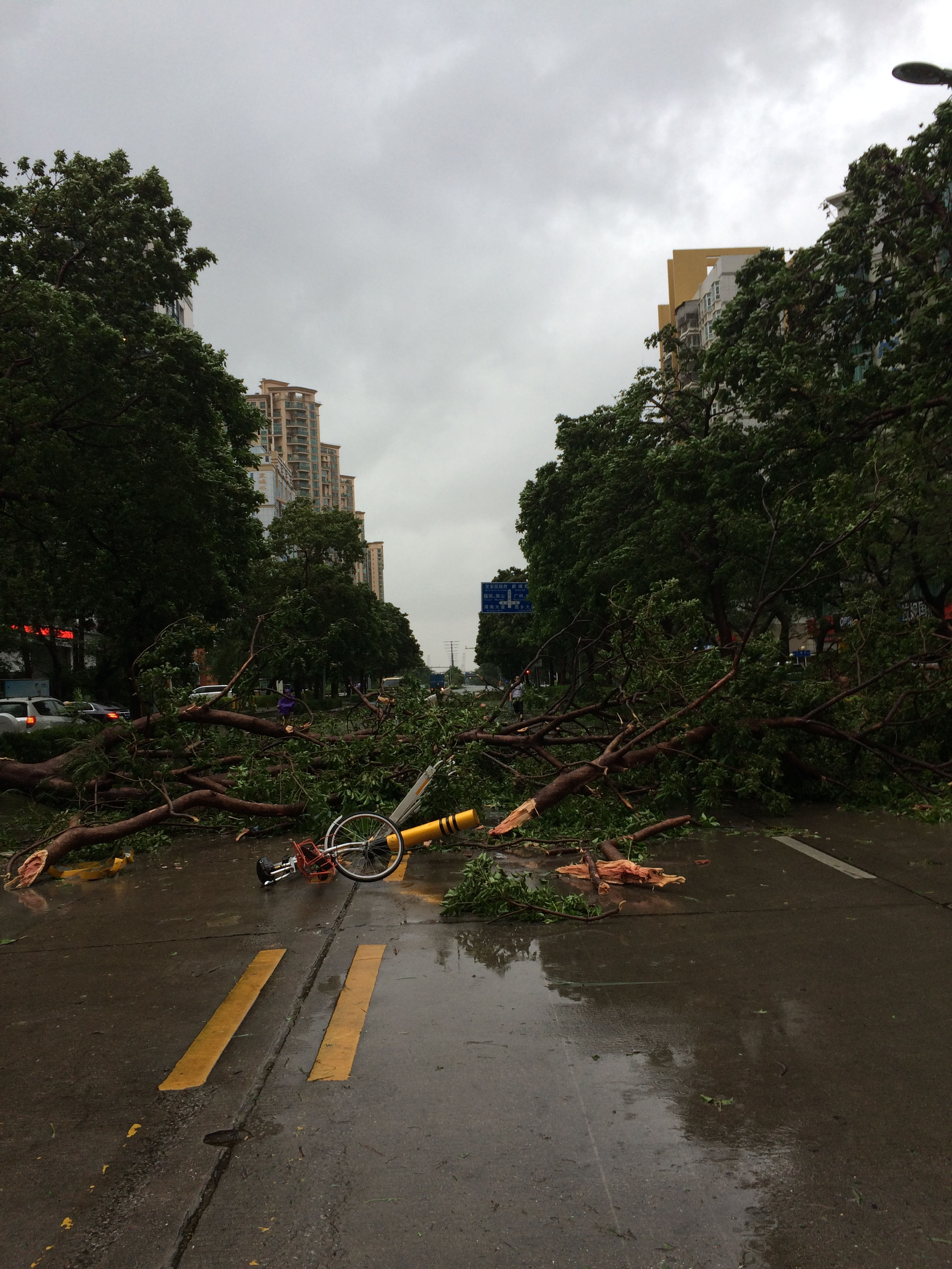 2018 Typhoon Mangkhut's aftermath, in Shenzhen City, Guangdong Province, China